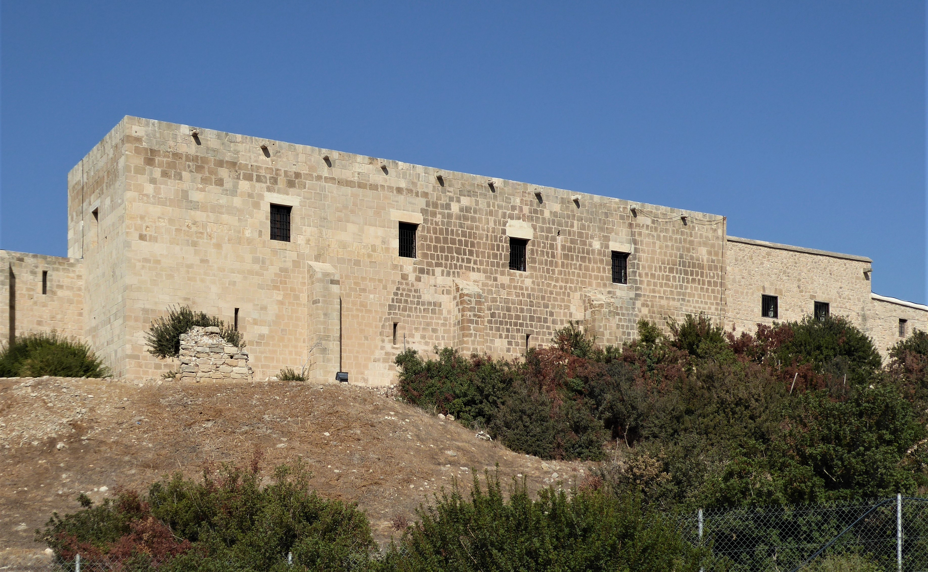 Royal Manor, Kouklia, Cyprus